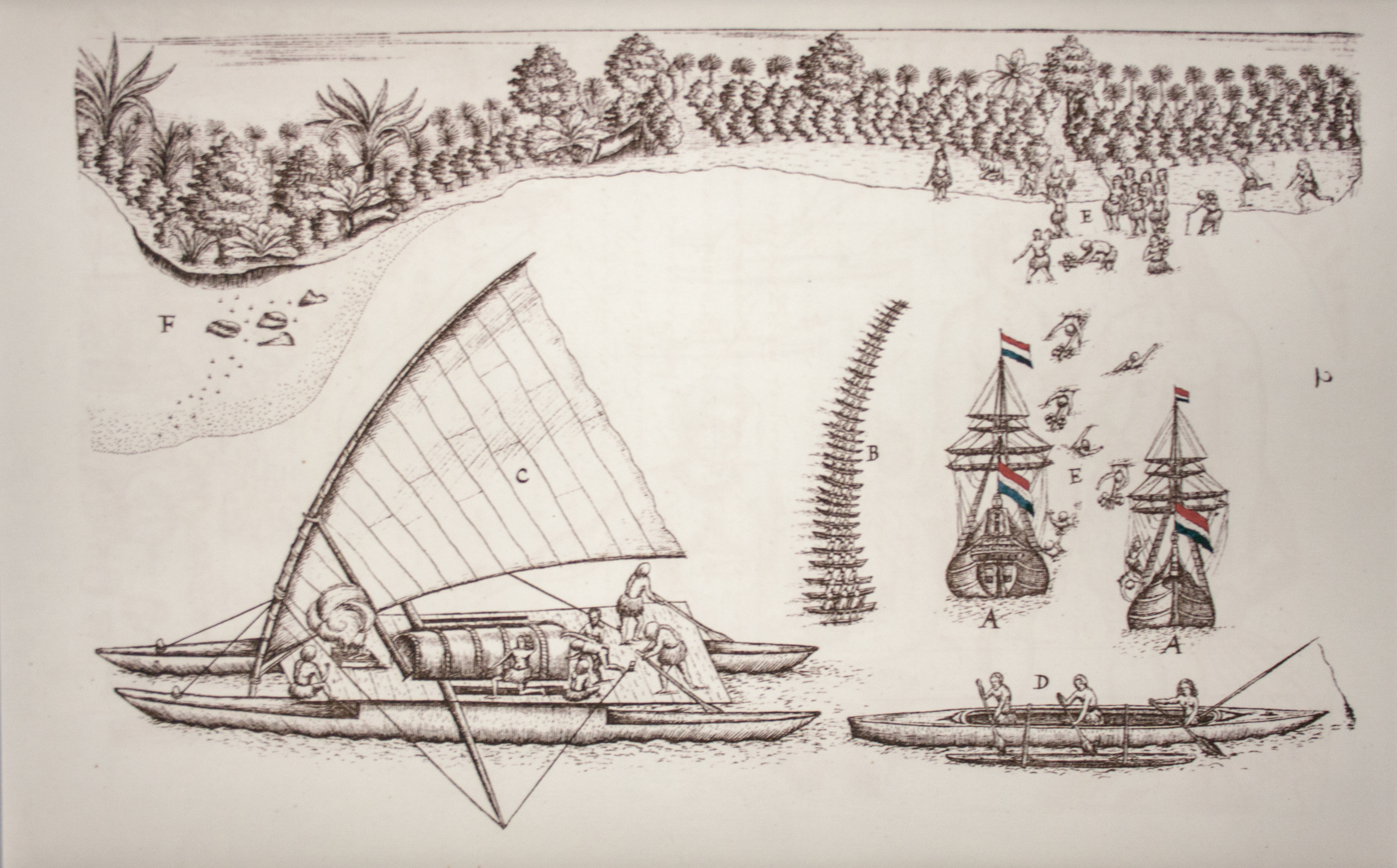 Drawing of maori wakas in the Rotorua Museum